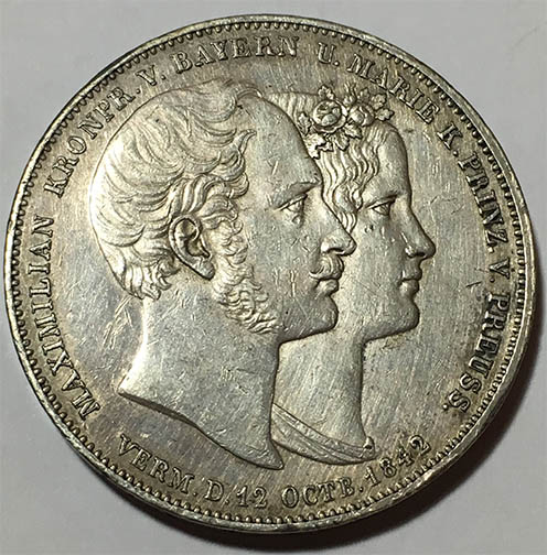 Reverse of double historical taler of Bayern 1842. Coin from my collection, image was made by me personally